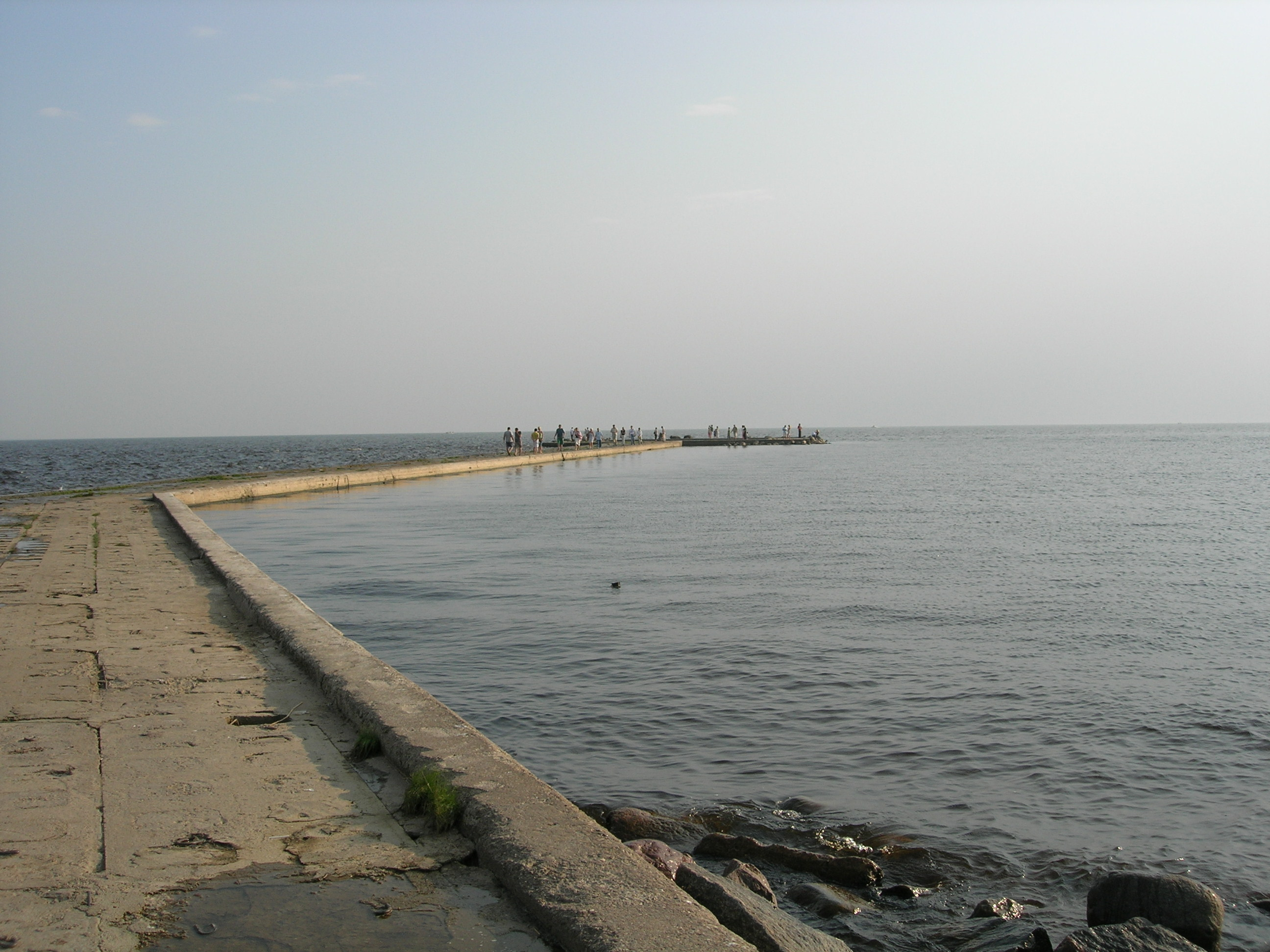 A mole of Ventės ragas, Ventė